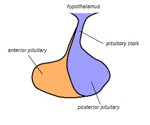 Pituitary gland illustration by Diberri, annotated